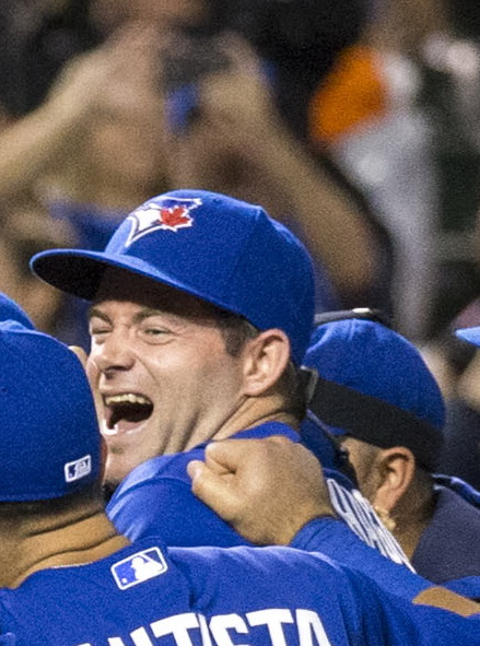 Matt Hague with Blue Jays